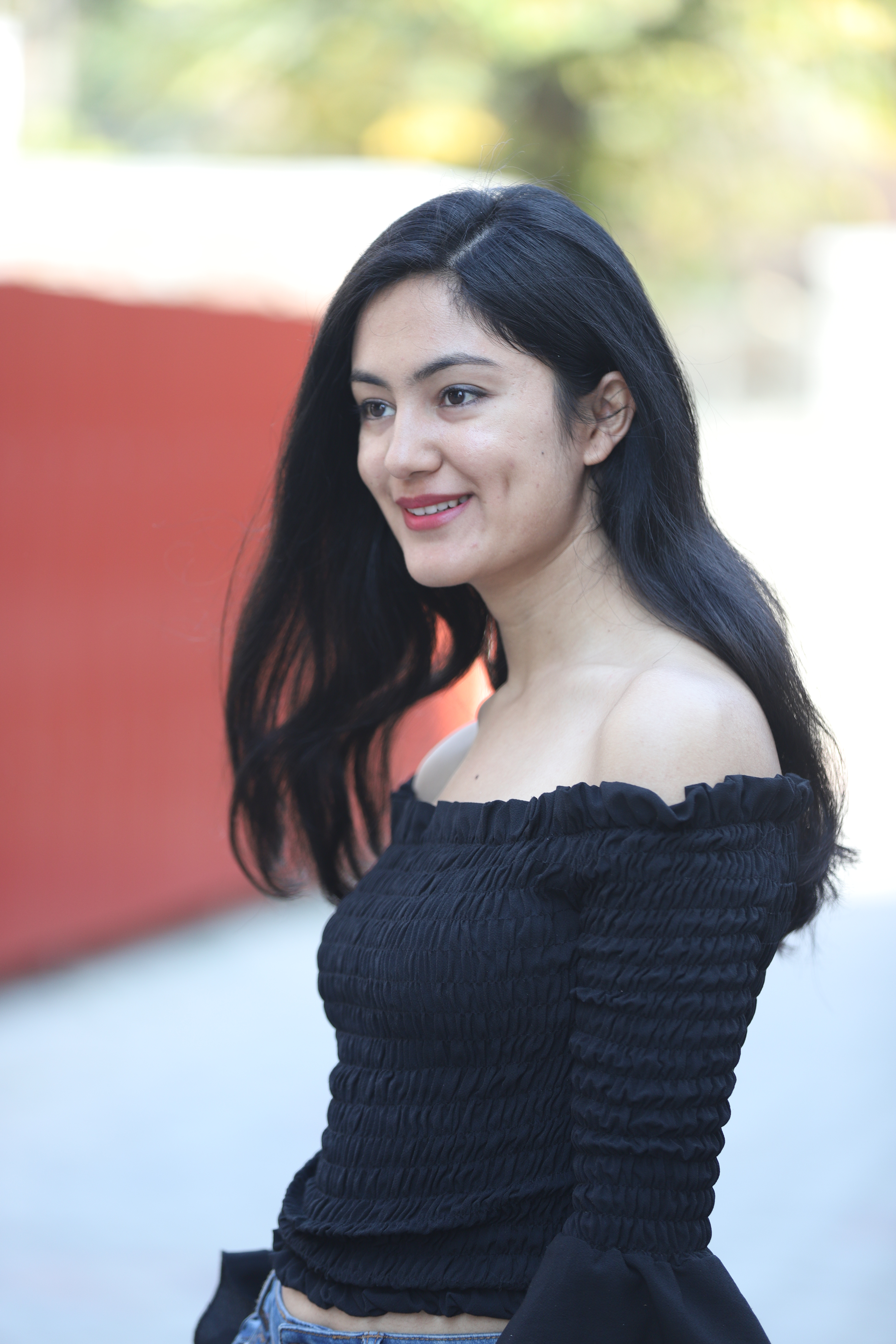 This photo was taken by me outside my office.